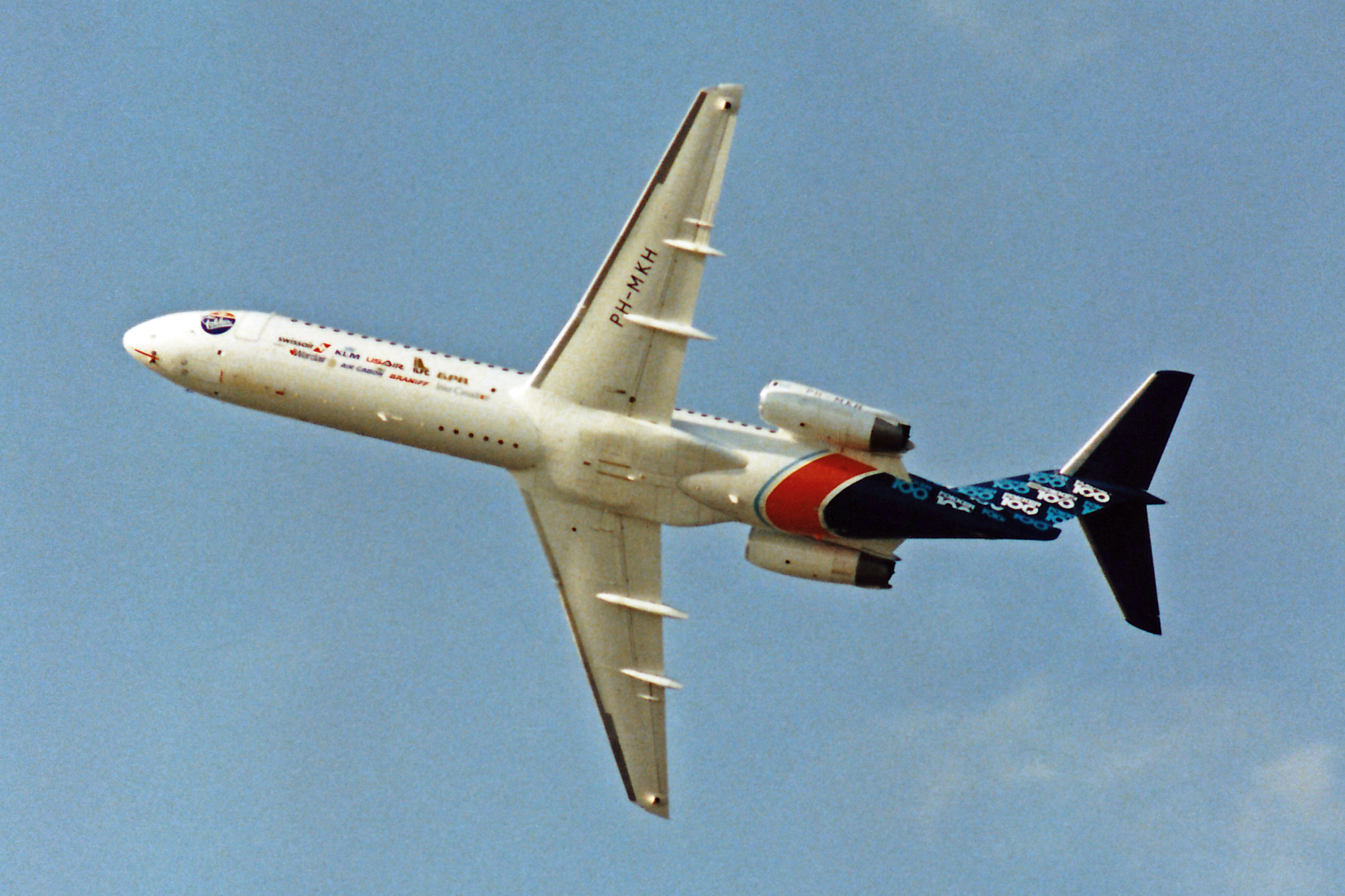 Replacing an earlier scanned photo with a better version.